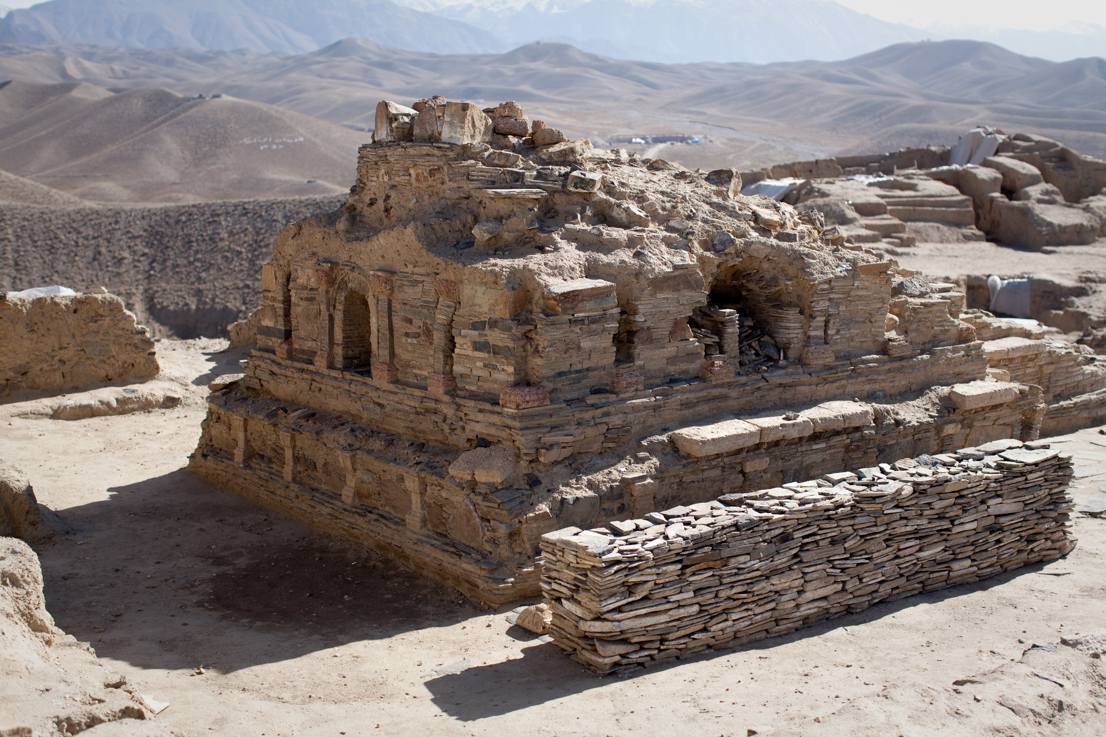 A recently excavated Buddhist stupa, or shrine, at Mes Ainak, 35km south of Kabul.